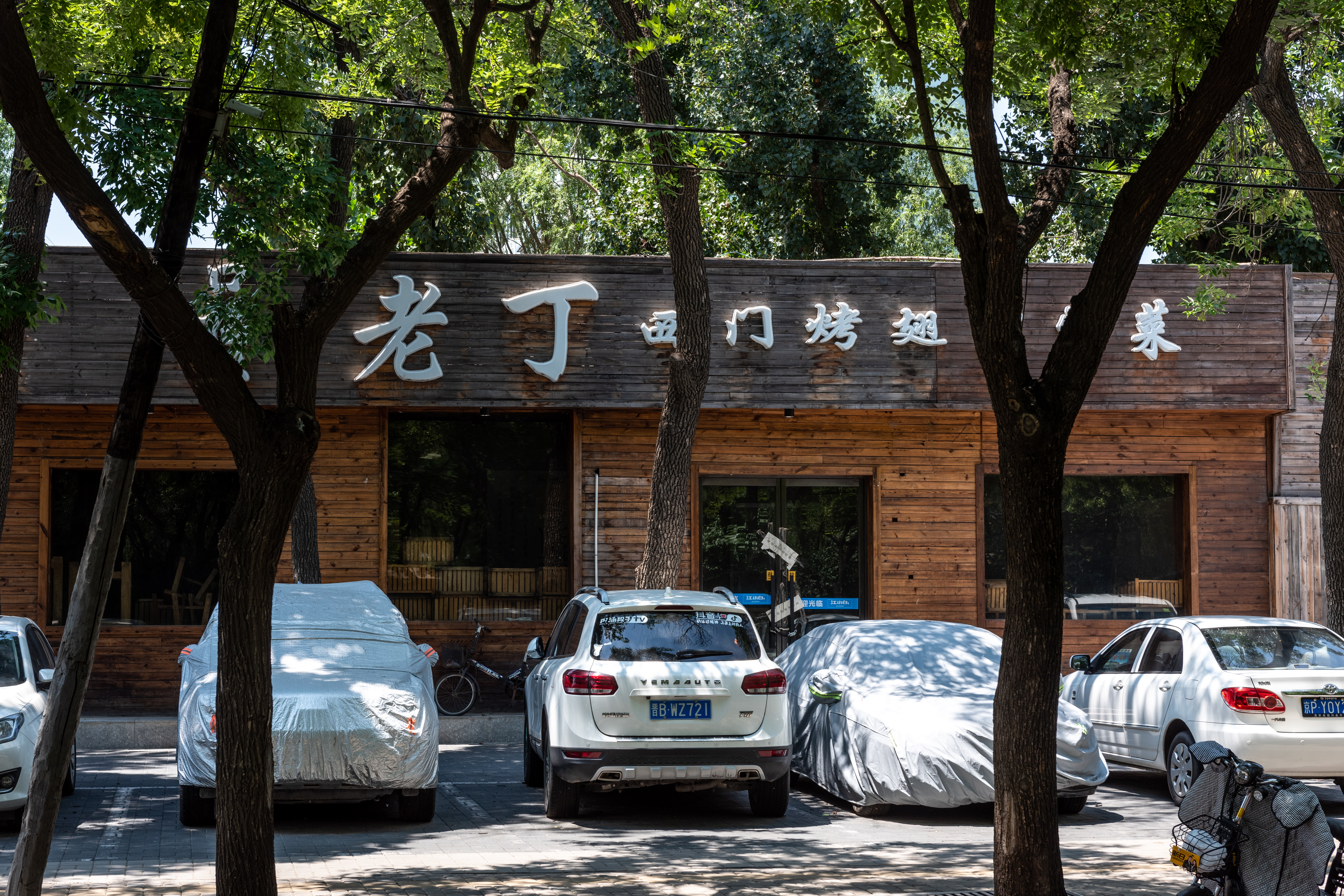 Closed since covid?